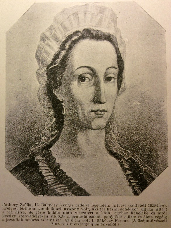 Báthory Zsófia (1629-1680), mother of Francis I Rákóczi, grandmother of Francis II Rákóczi